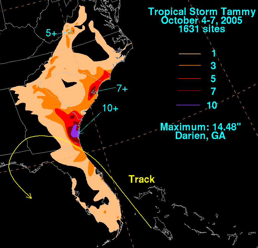 Storm total rainfall map of Tropical Storm Tammy during October 2005.